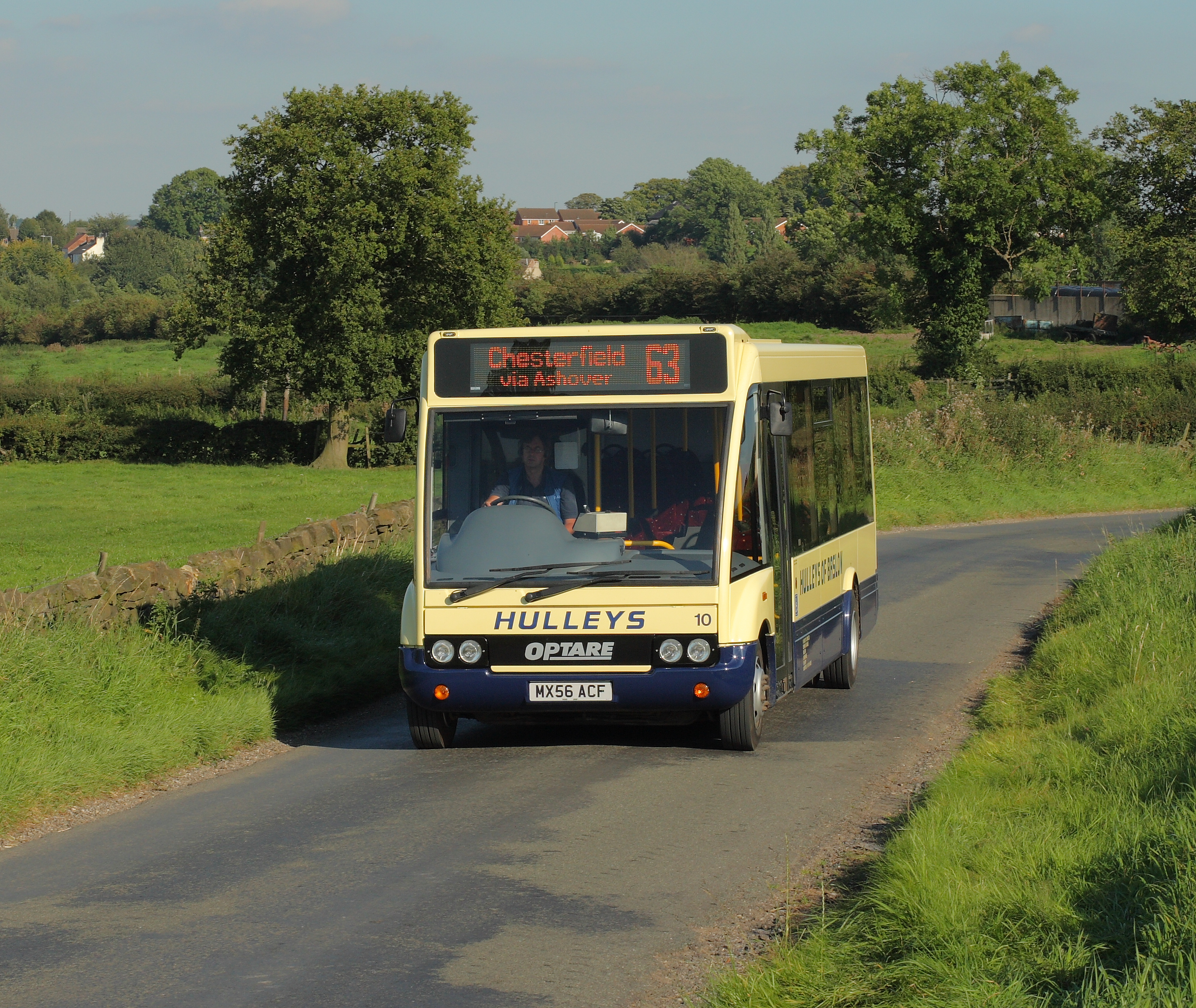 Hulleys of Baslow bus 10, registration mark MX56 ACF, a 2006 Optare Solo M850SL midibus, leaving Clay Cross, Derbyshire for Ashover on route 63.